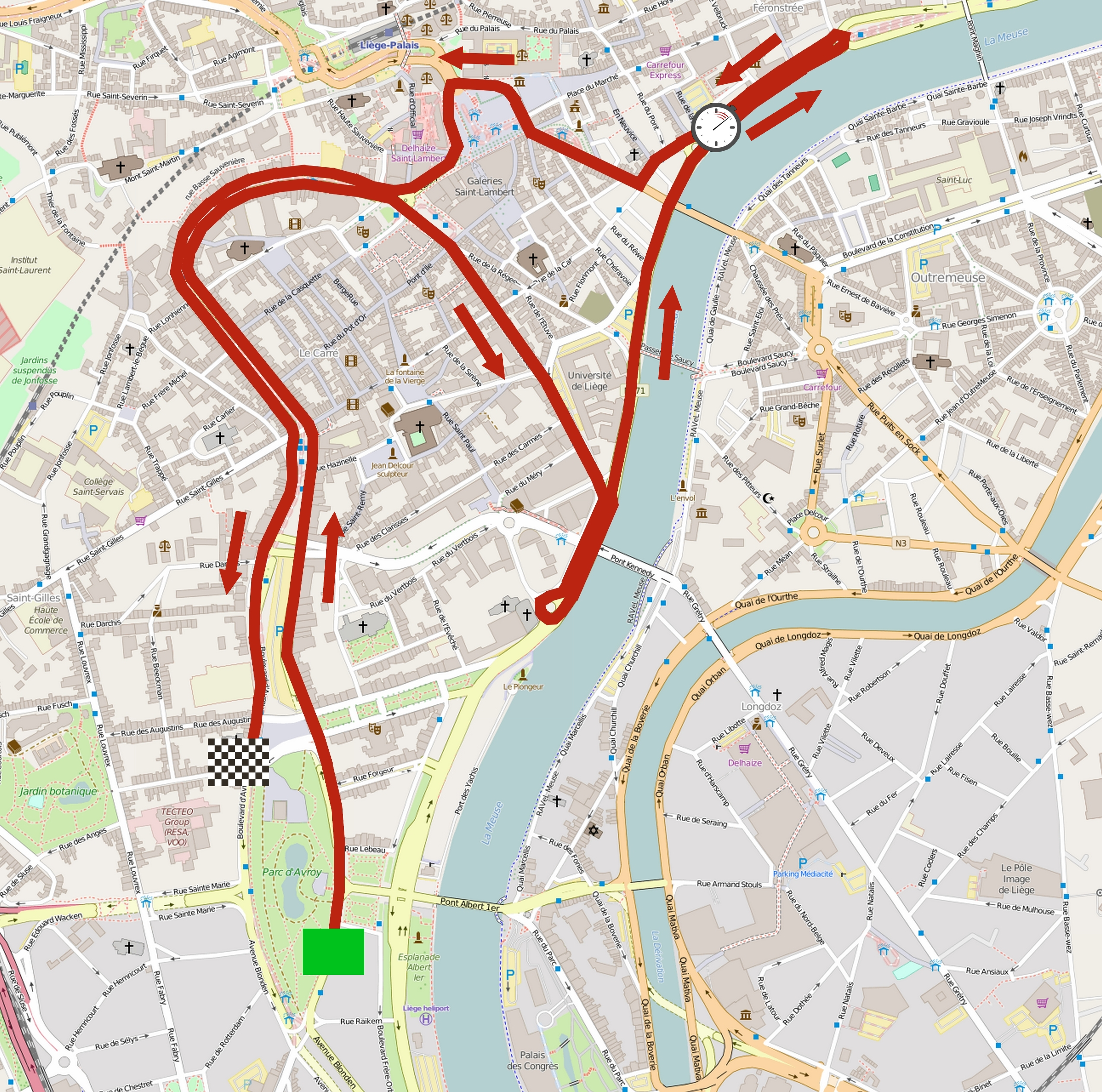 Parcours du Prologue Tour de France 2012. This map may be incomplete, and may contain errors. Don't rely solely on it for navigation.